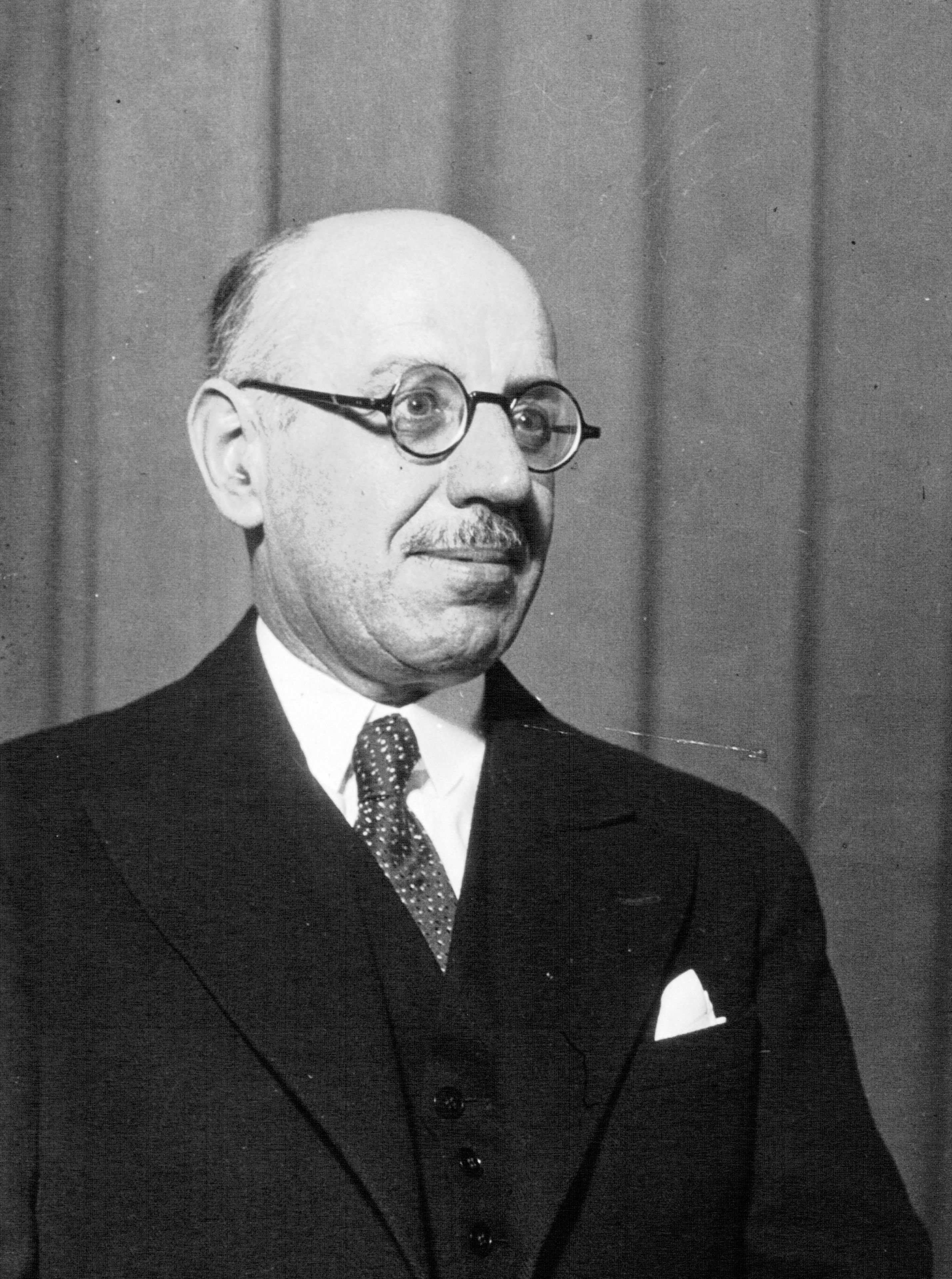 French civil servant and diplomat Joseph Avenol (1879-1952) as Secretary General of the League of Nations in 1932.